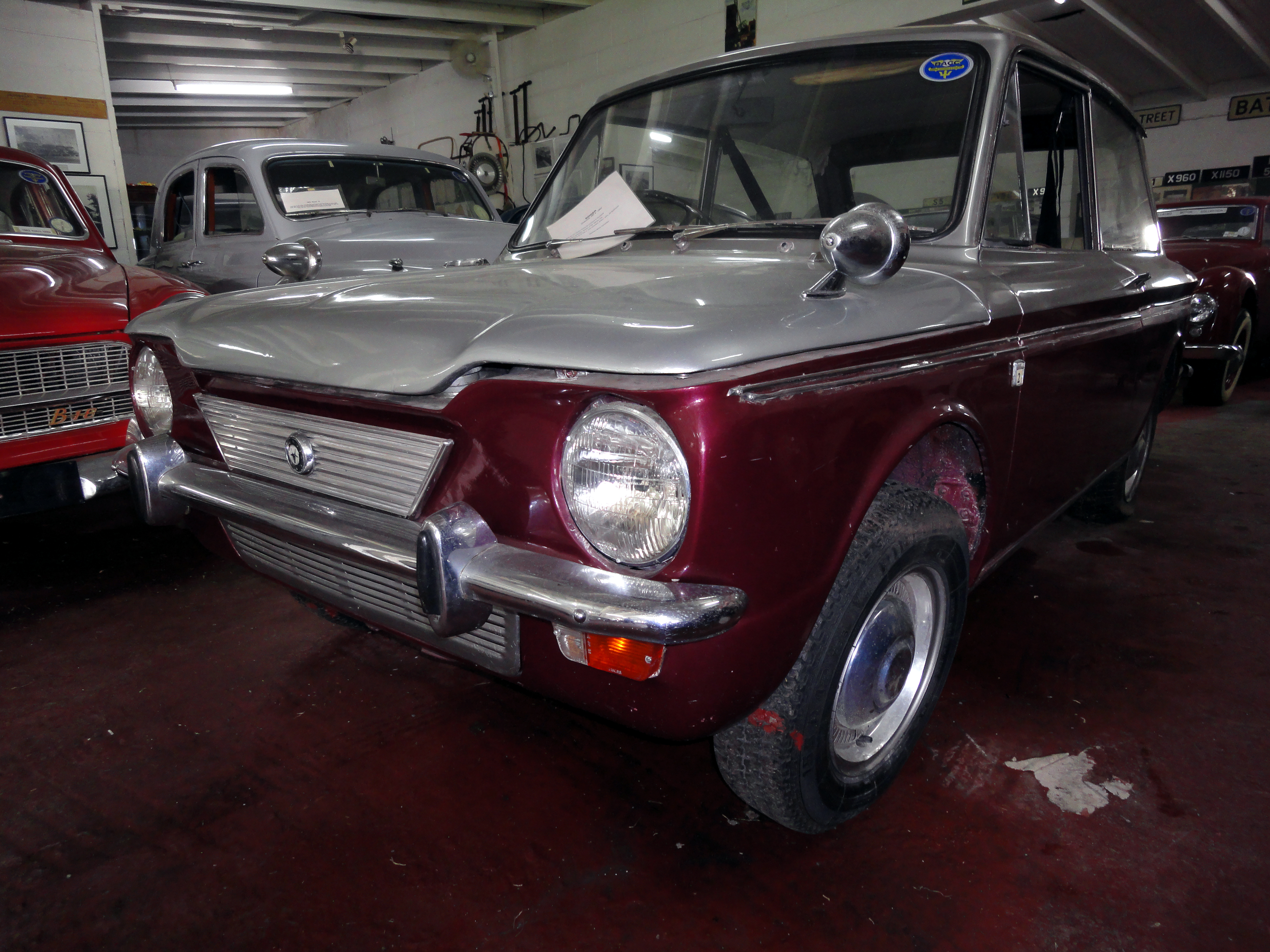 Mallalieu Motor Collection,Nov 2011